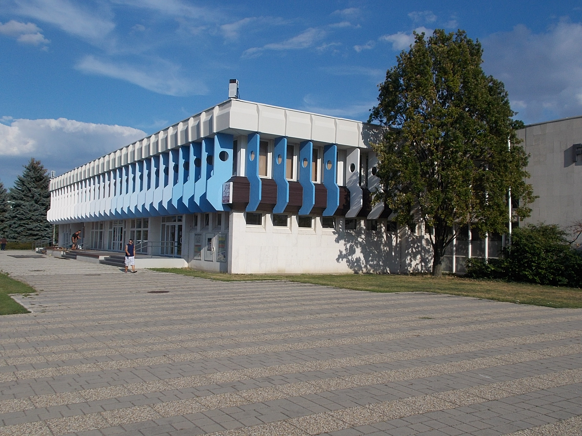 Flesch Károly Cultural Center. - Flesch Károly Street, Magyaróvár neighborhood, Mosonmagyaróvár, Győr-Moson-Sopron County, Hungary.